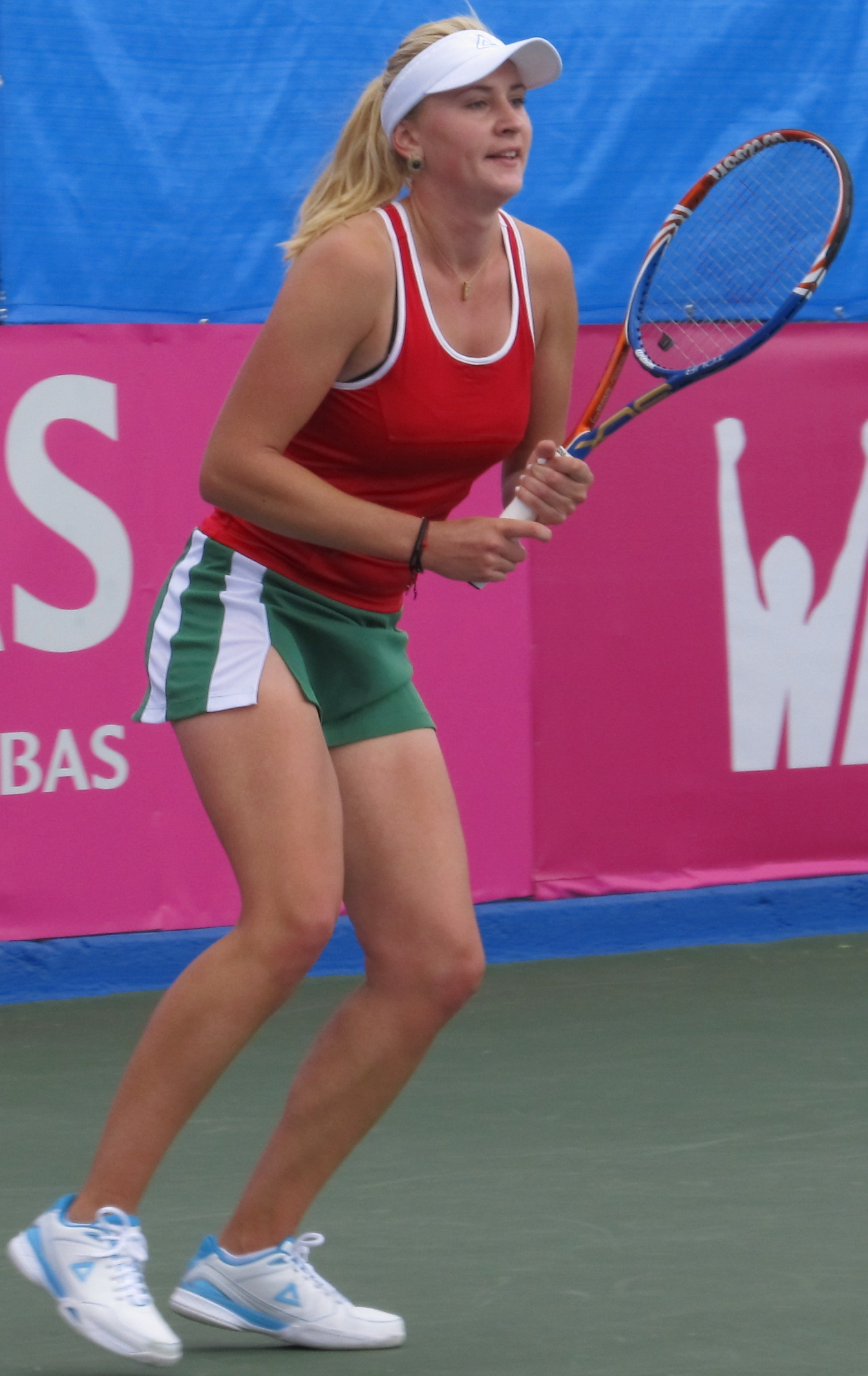 The tennis player Olga Govortsova of Belarus during her match against Patricia Mayr-Achleitner of Austria in the 1st day of Fed Cup Group I 2011 Europe/ Africa in Eilat, Israel